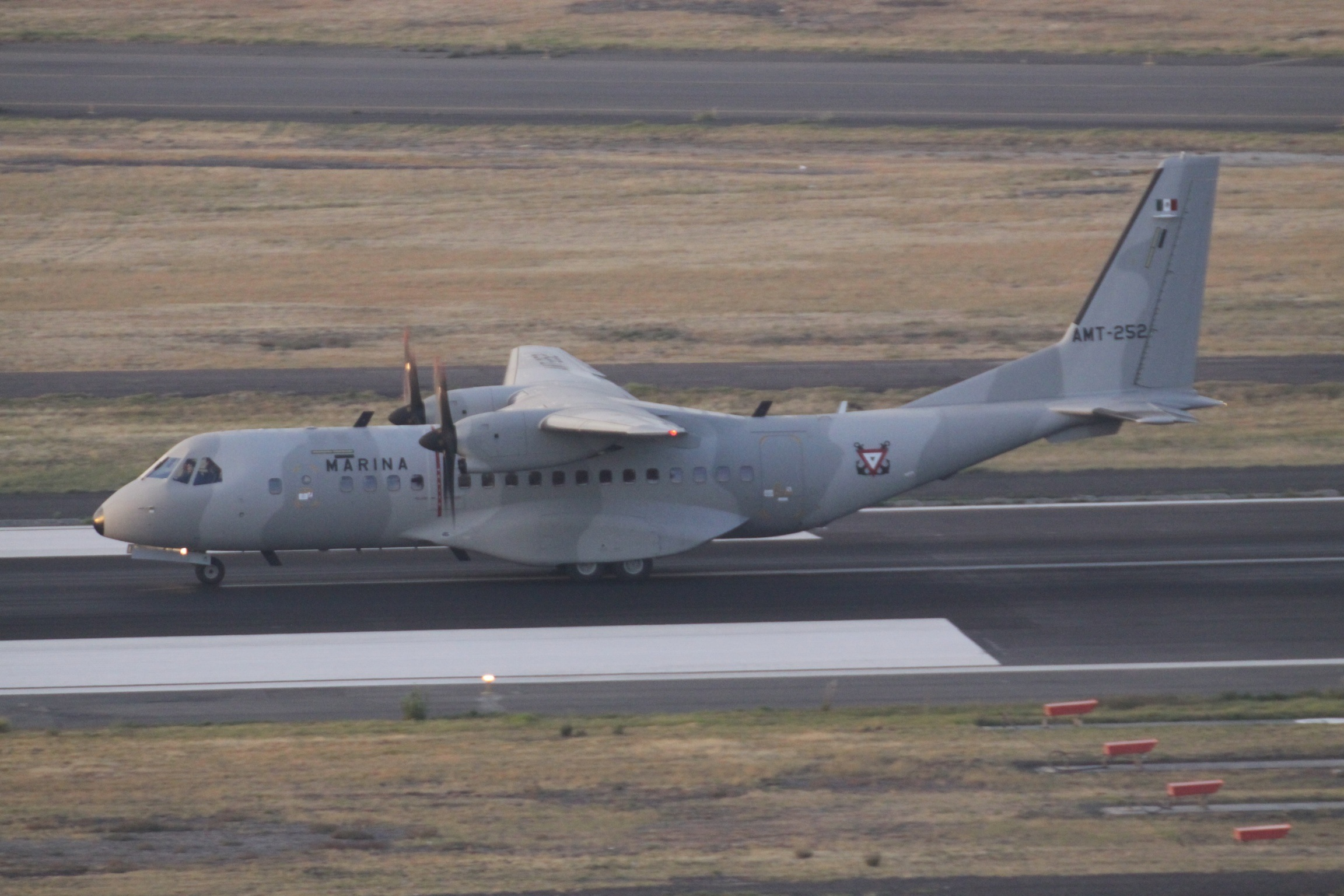 At Mexico City International Airport